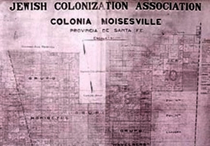 Jewish Colonization Association: map of the plots of Colonia Moisesville (Argentina)